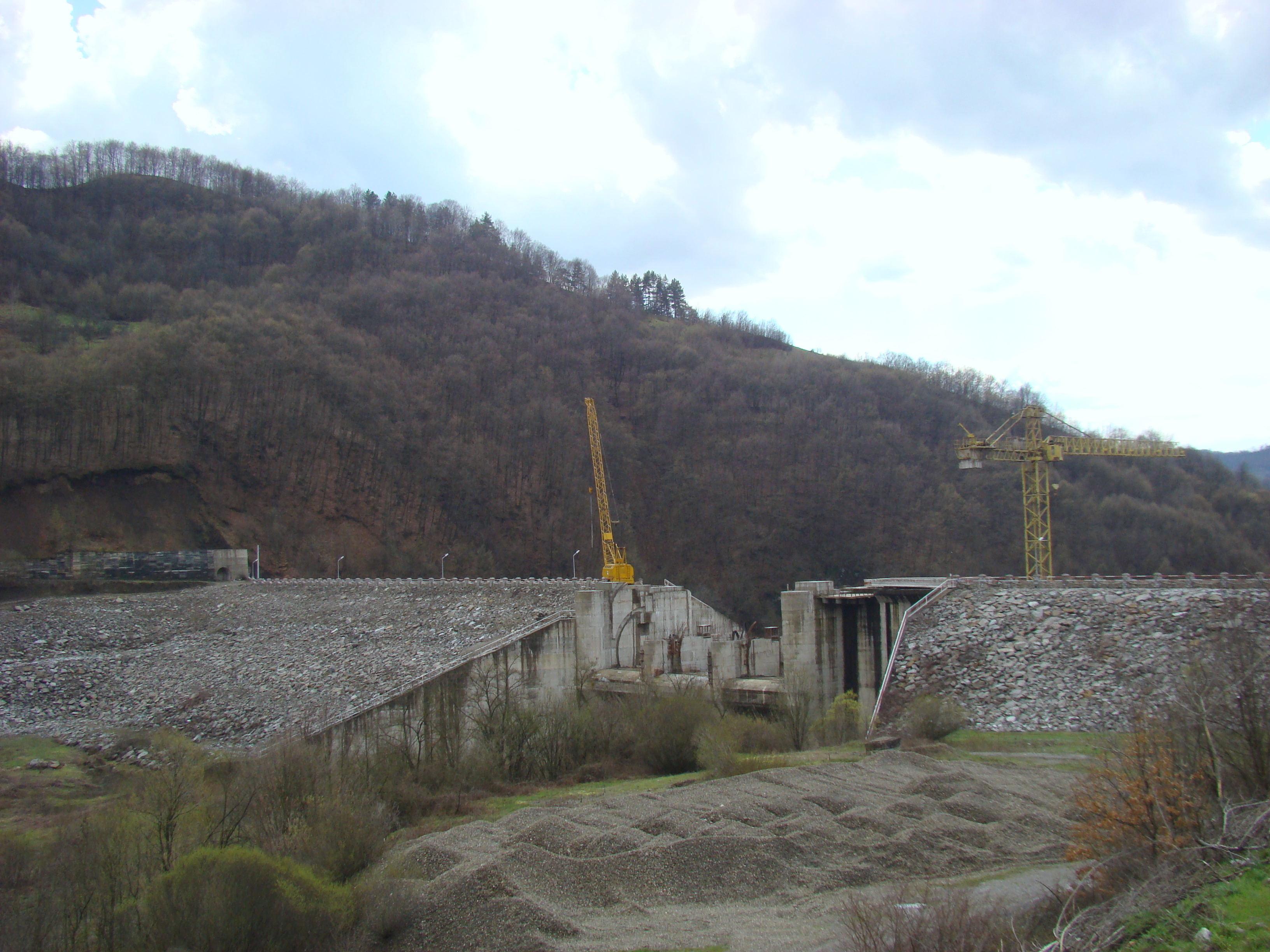 Mihăileni, Hunedoara county, Romania